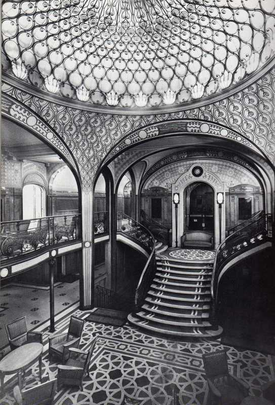 The First Class Grand Staircase of the SS Paris (1921) from Main Entrance. See Item 93.1.1.11985 in the Byron Company collection of the Museum of the City of New York (uncropped)